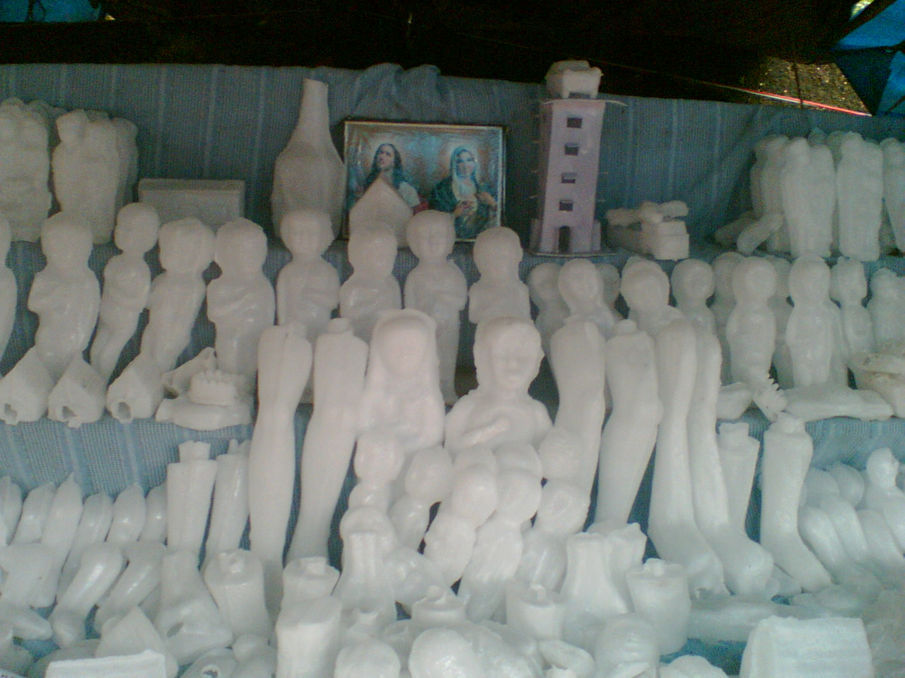 Some Wax idols at a shop in the Bandra Fair